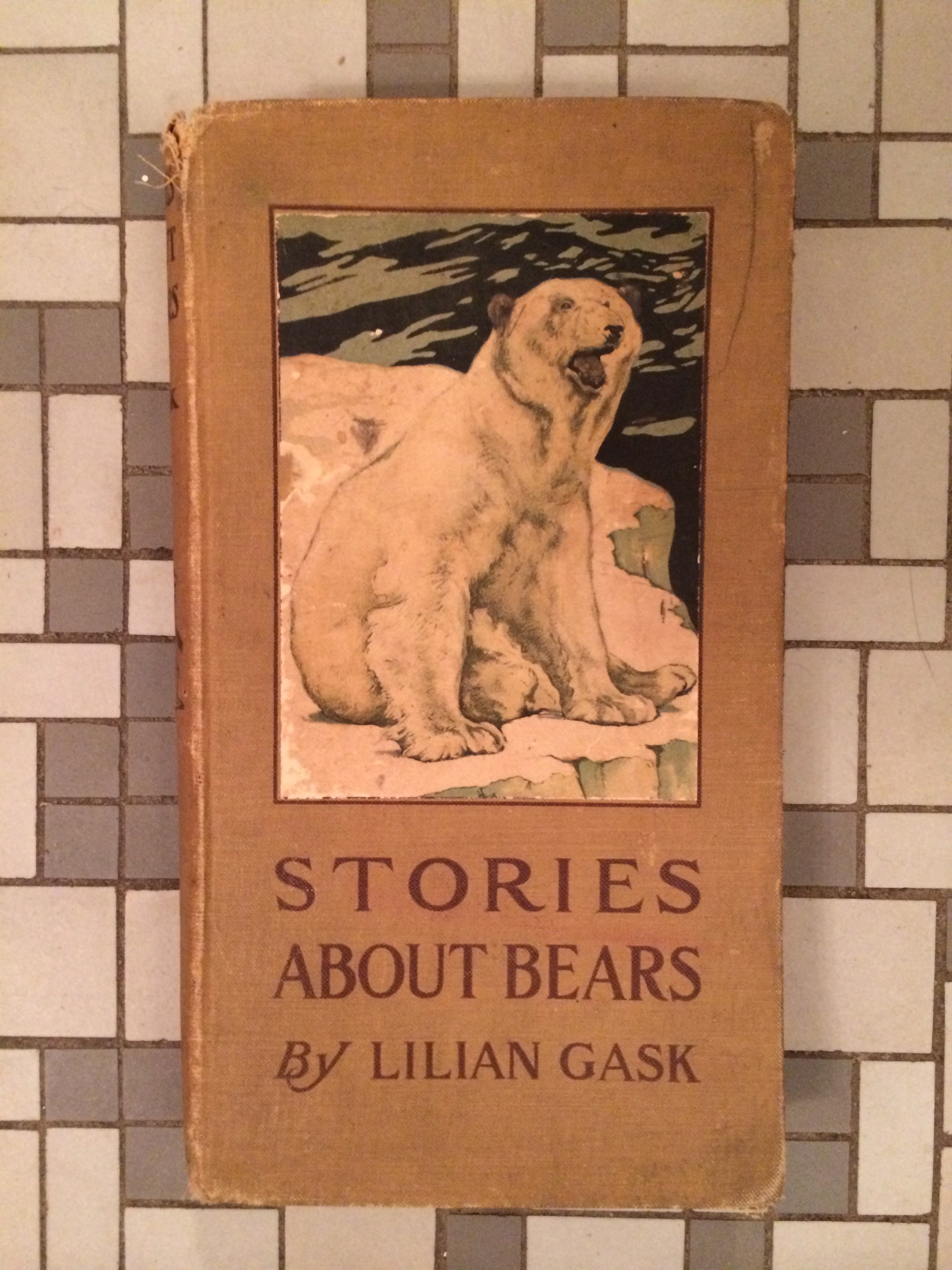 Published by Thomas Y. Crowell Company, New York, 1925 [no date listed in book]; originally published by George C. Harrap, London, 1916.